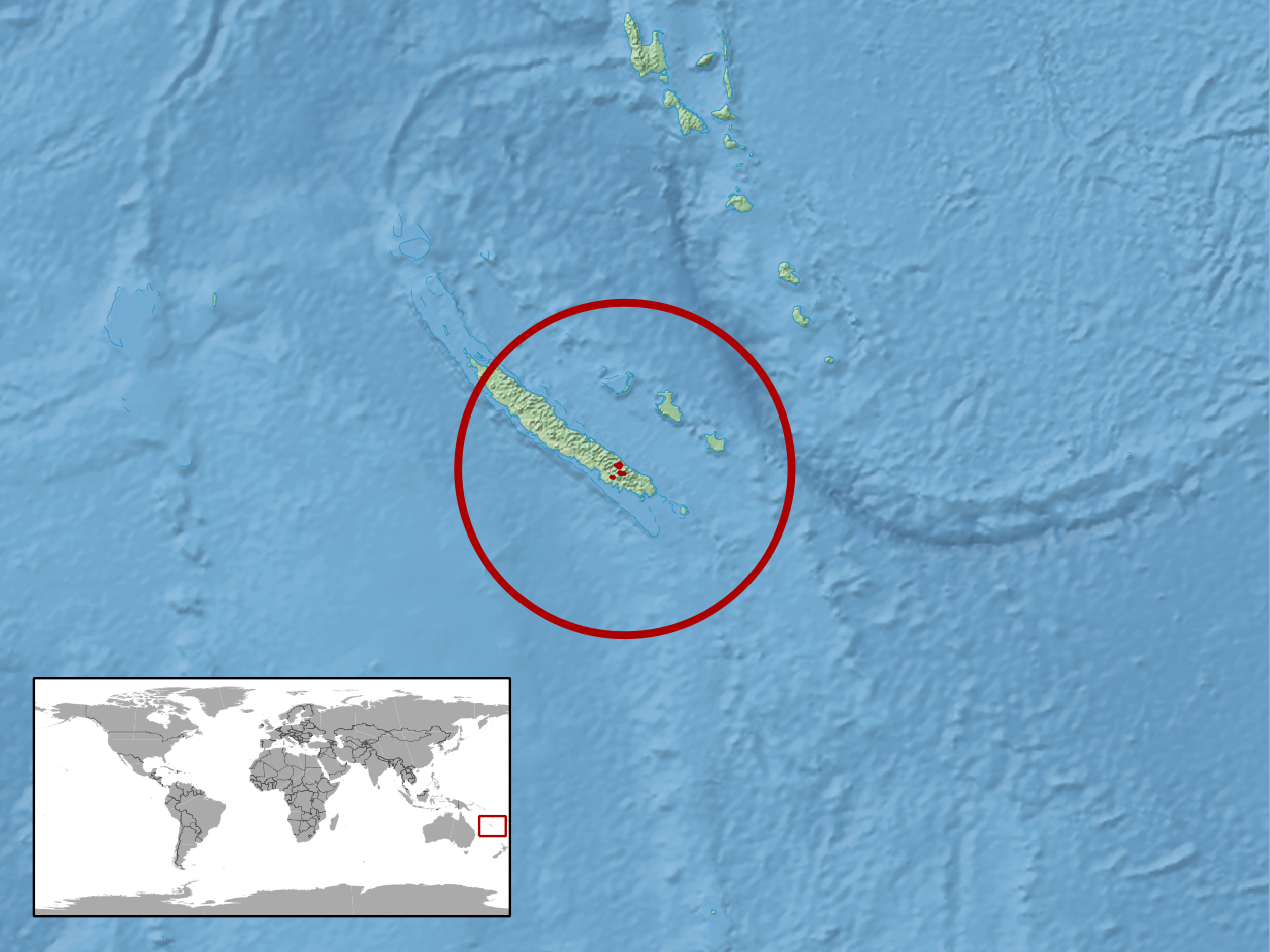 geographic distribution of Sigaloseps ruficauda